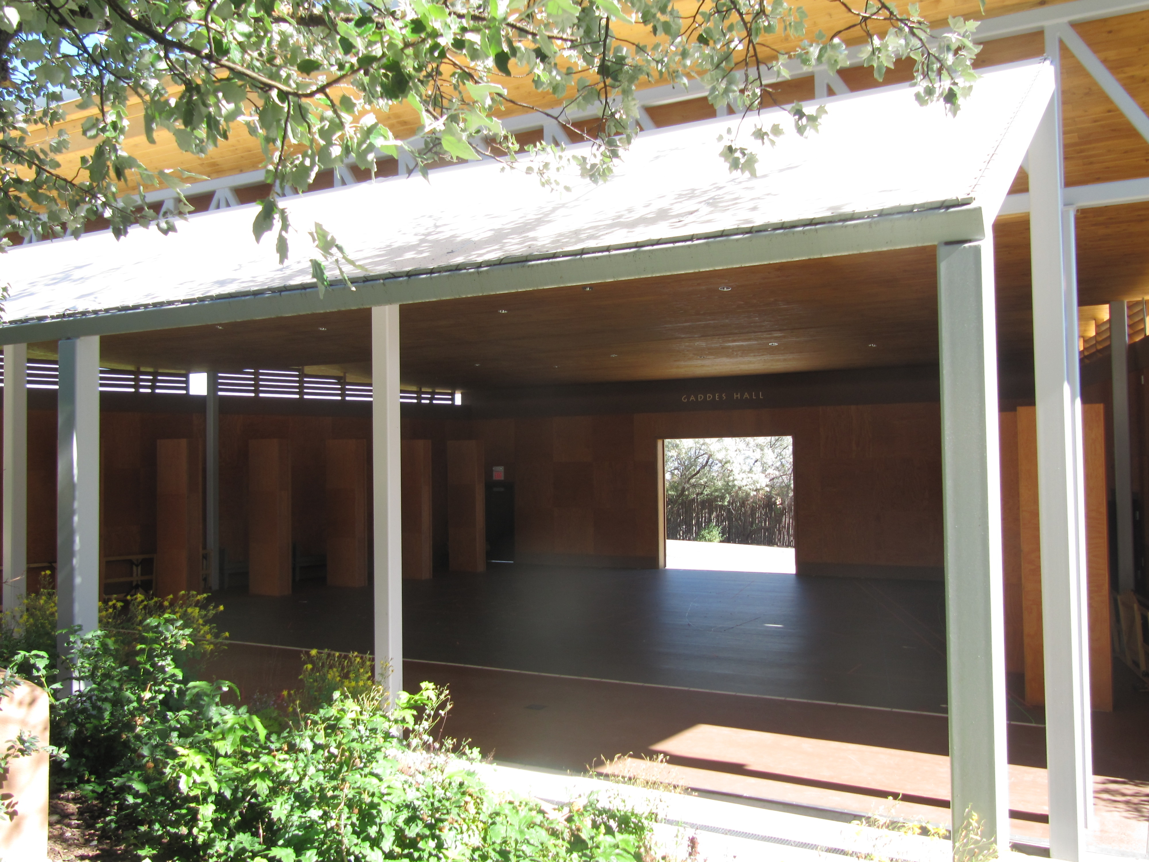 The Santa Fe Opera's Gaddes Rehearsal Hall opened in 2010